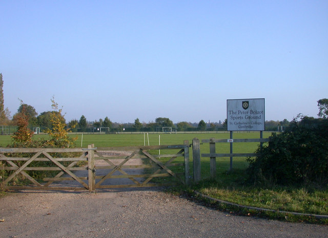 Peter Boizot Sports Ground, Grantchester Road Peter Boizot (of Pizza Express) was an alumnus, and has been a generous benefactor, of St Catharine's College.